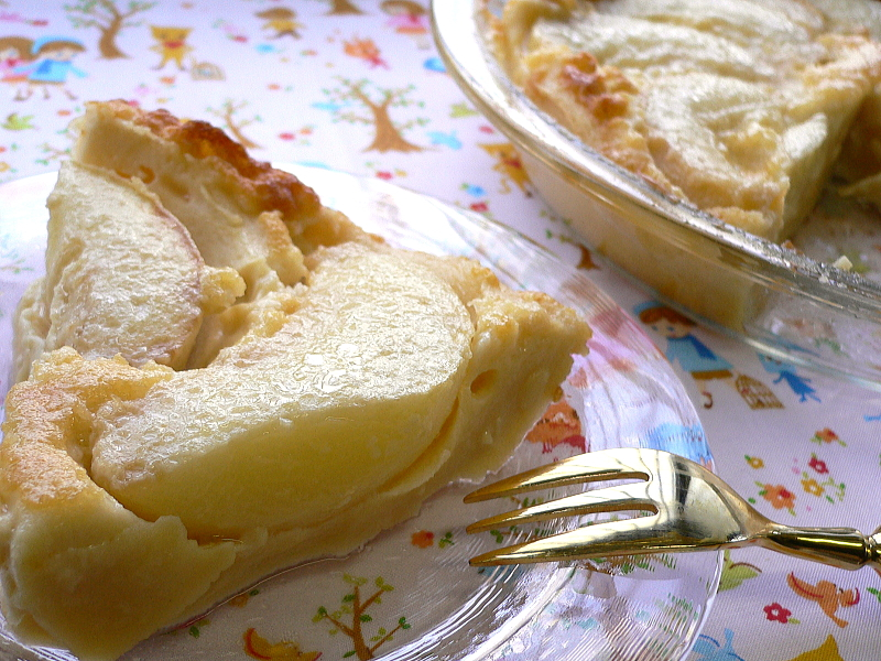 2 whole eggs, 50g suger, 50g flour, 150ml milk, 50ml fresh cream, 50g butter, peach as you like. 170℃- 45minutes